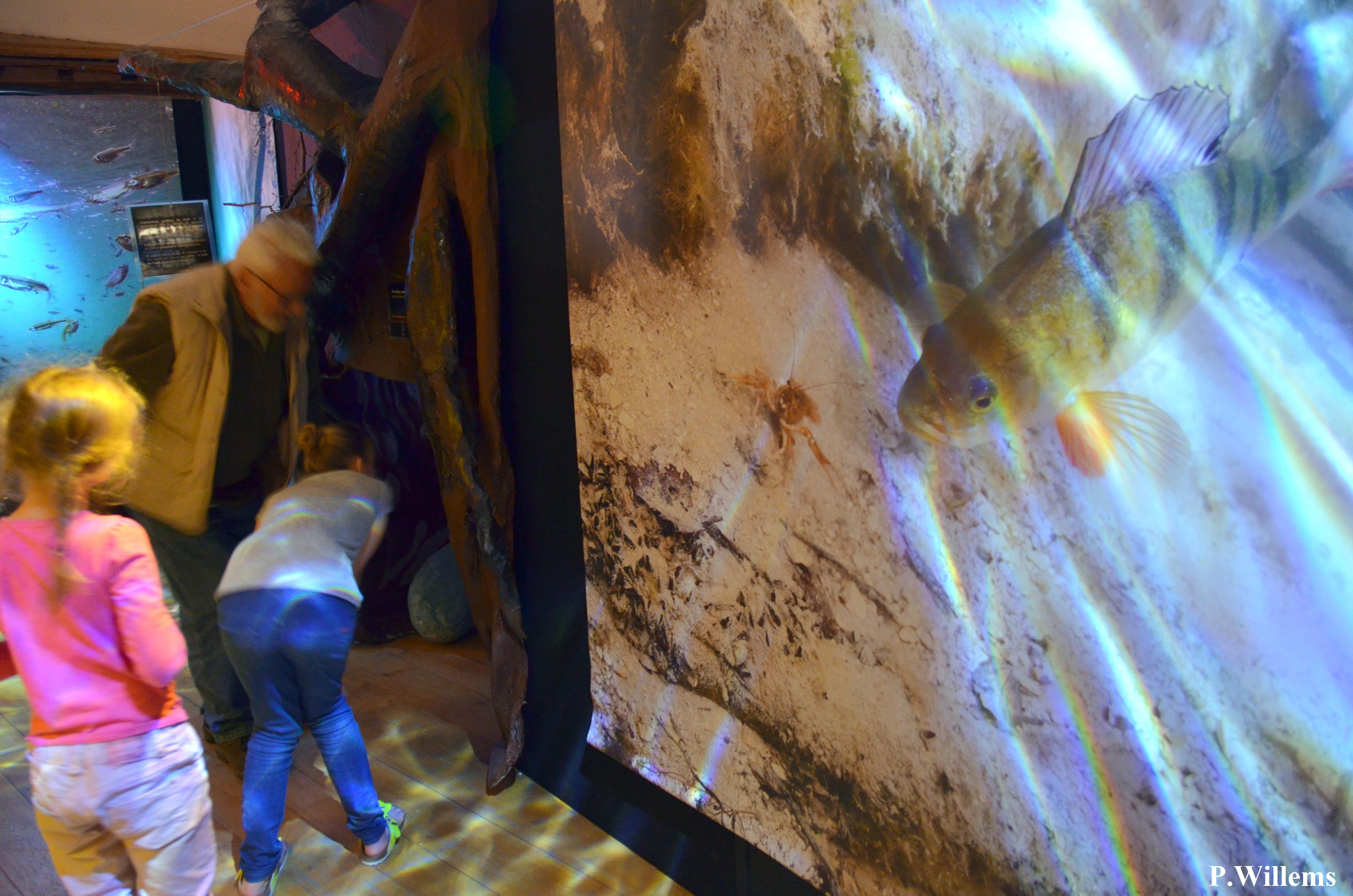 Exposition